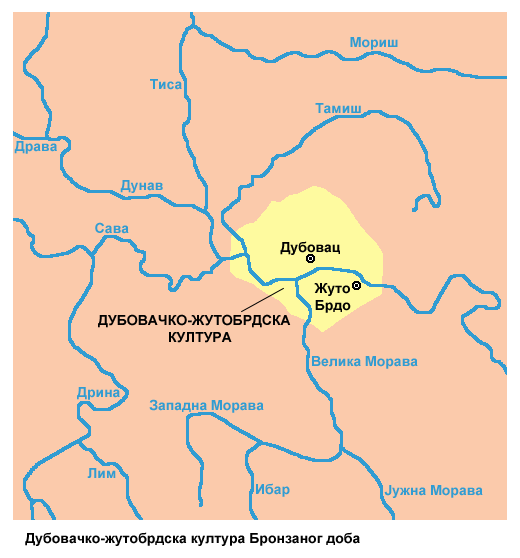 Bronze Age Dubovac-Žuto Brdo culture.